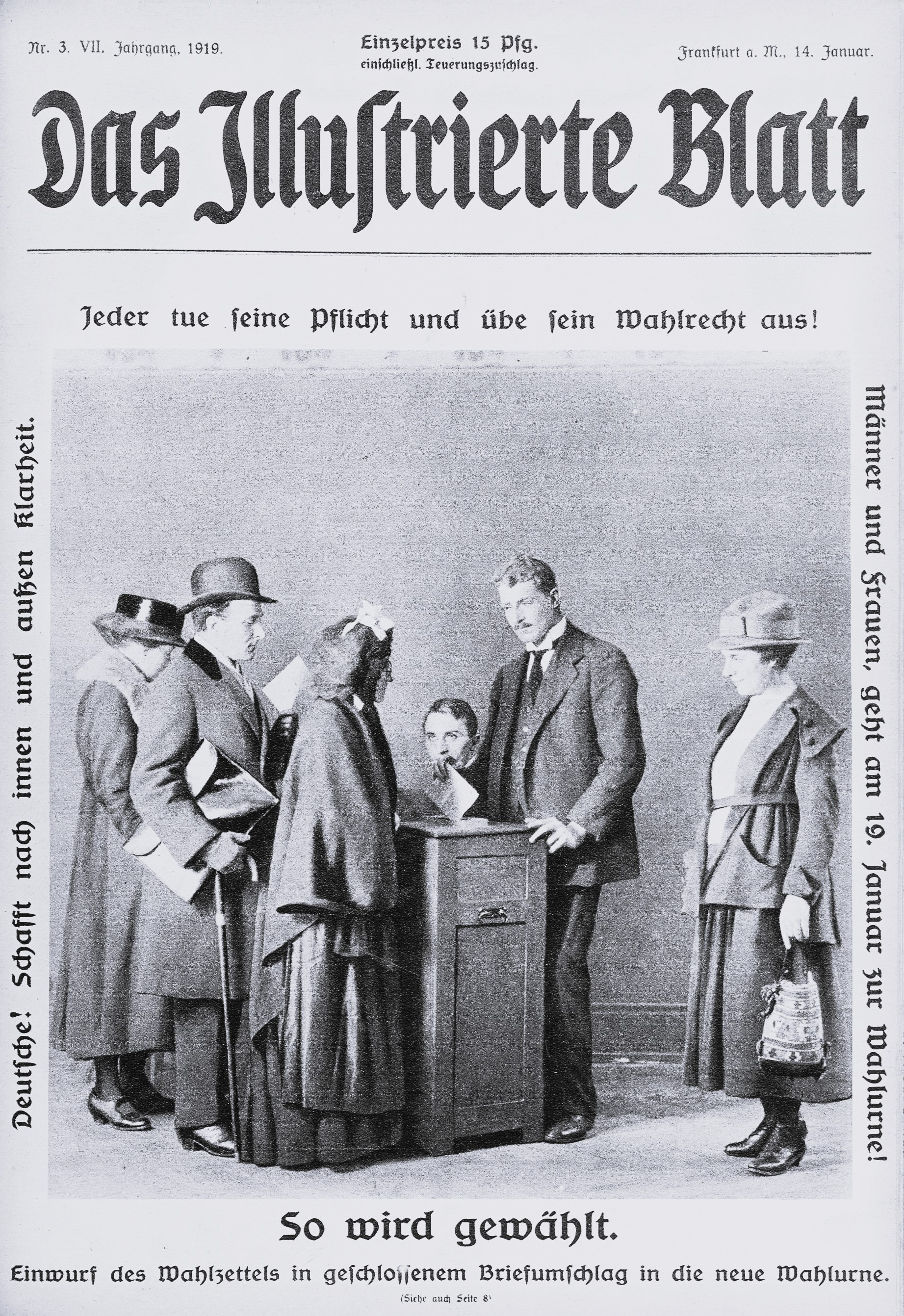 "Das Illustrierte Blatt" (The illustrated paper), Vol. 2, No. 3, 14.1.1919, Cover "Jeder tue seine Pflicht und übe sein Wahlrecht aus" (Everybody should do their duty and should vote), newspaper, paper, print. Photo of issue in repository of Archiv der deutschen Frauenbewegung (Archive of German Women's Movement), Kassel, Signatur ZSF-38. Photographer: Horst Ziegenfusz on behalf of Historisches Museum Frankfurt (Historical Museum Frankfurt). Published in Dorothee Linnemann (Ed.): Damenwahl! 100 Jahre Frauenwahlrecht. Begleitbuch zur Ausstellung. Societäts-Verlag, Frankfurt am Main 2018, ISBN 978-3-95542-306-3, S. 157.